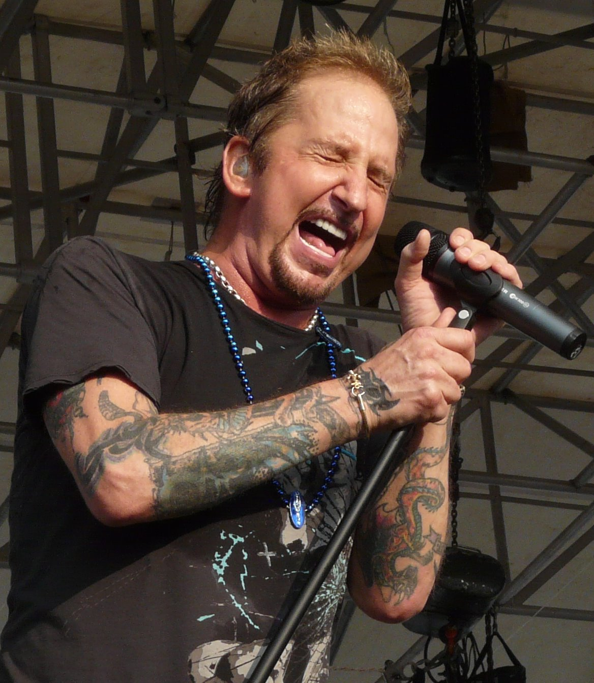 Jack Russell with Great White at the Moondance Jam on July 11, 2008 in Walker, Minnesota.